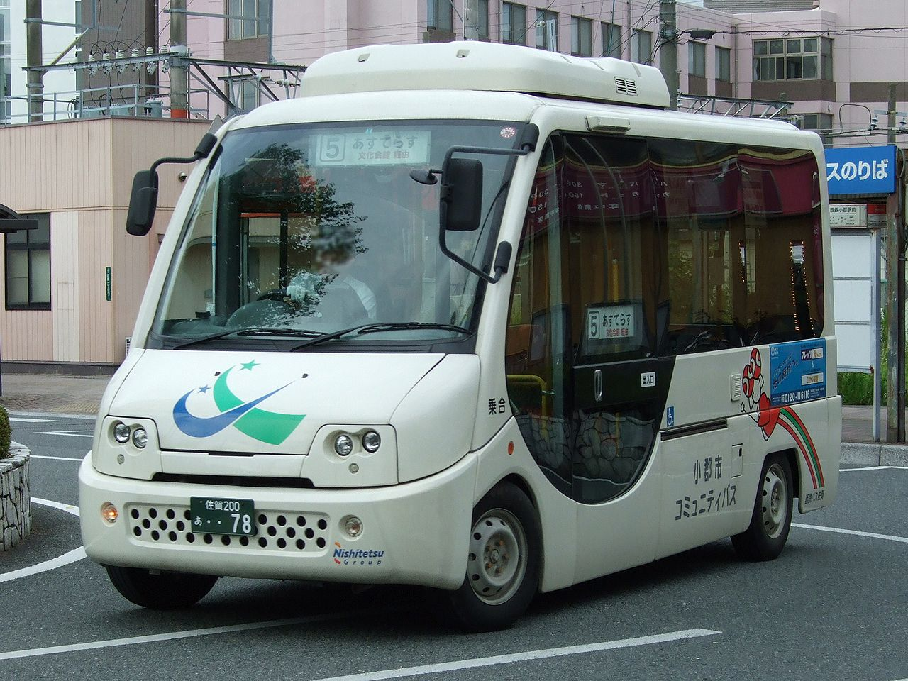 Ogori City Community Bus